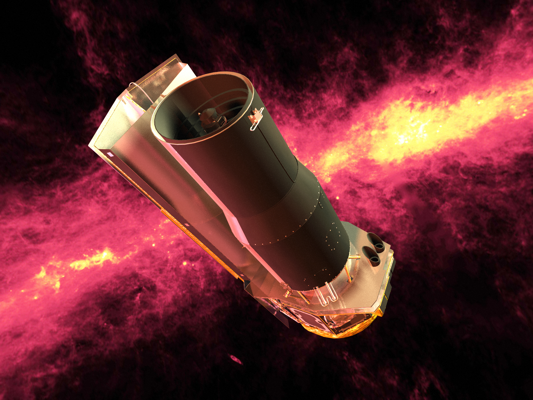 NASA's Spitzer Space Telescope. Artist's conception of the Spitzer Space Telescope.